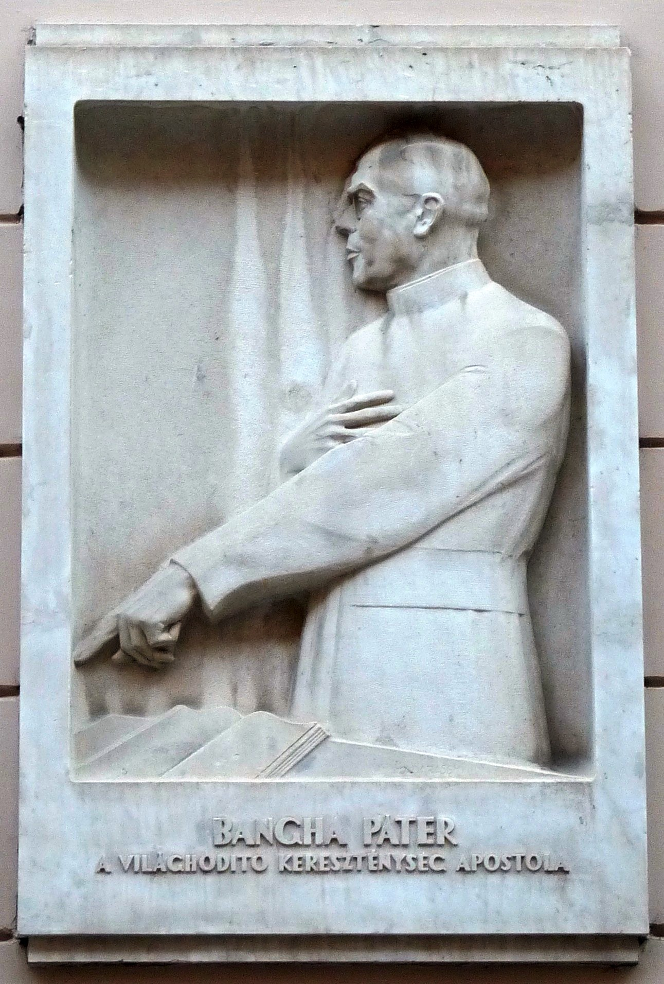 Béla Bangha commemorative plaque in Budapest District VIII, Horánszky Street No 20.